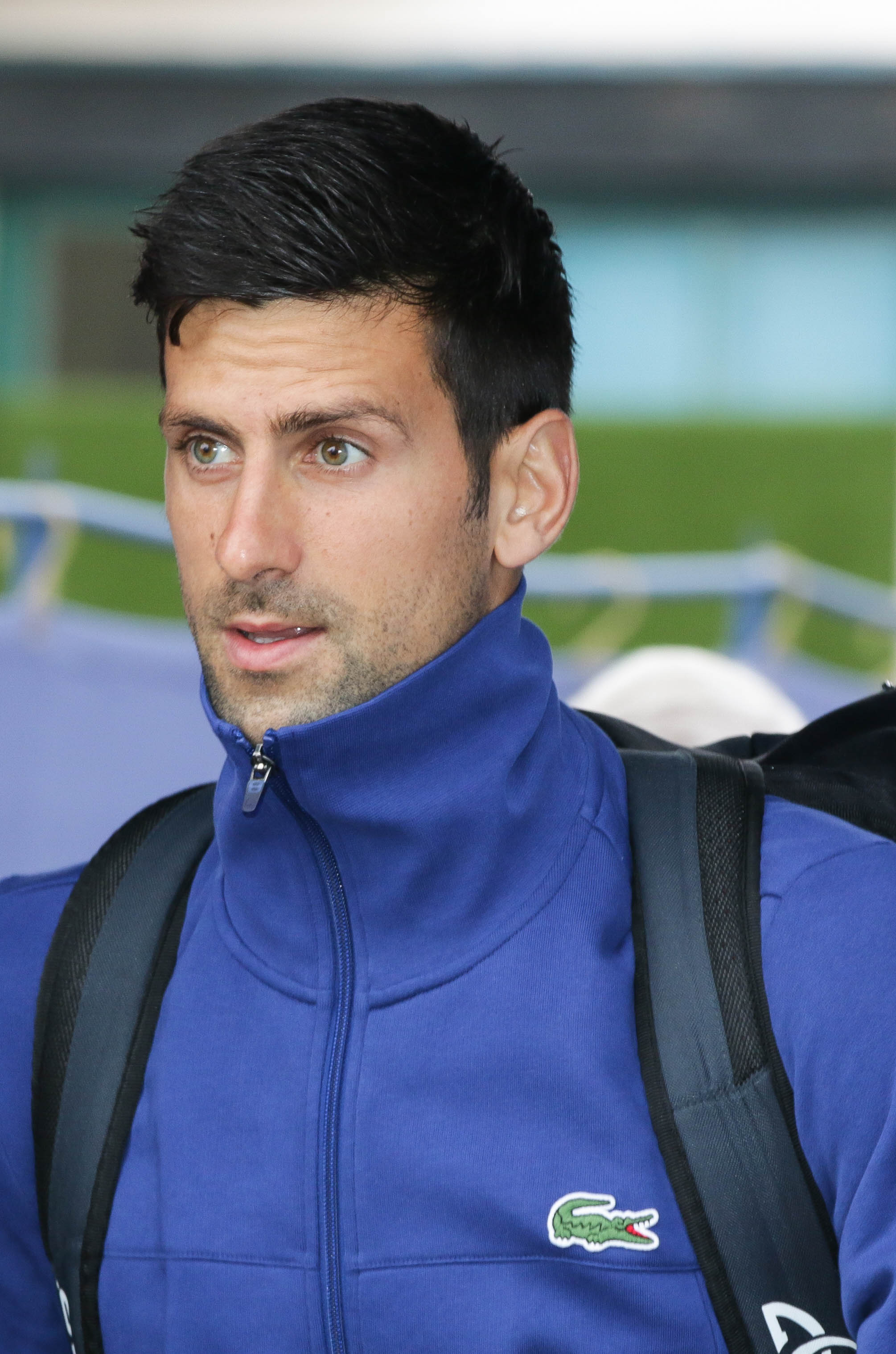 Eastbourne tennis 2017-12-2.jpg